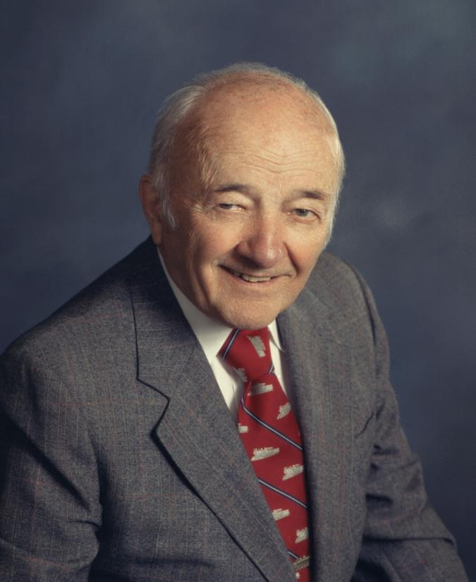 This is a late photograph of Chadwell O'Connnor.